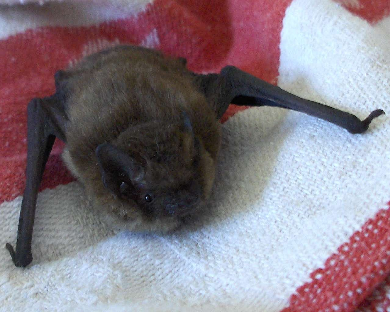 Soprano Pipistrelle (Pipistrellus pygmaeus)